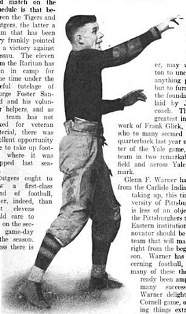 Army football player Robert Neyland throwing a forward pass